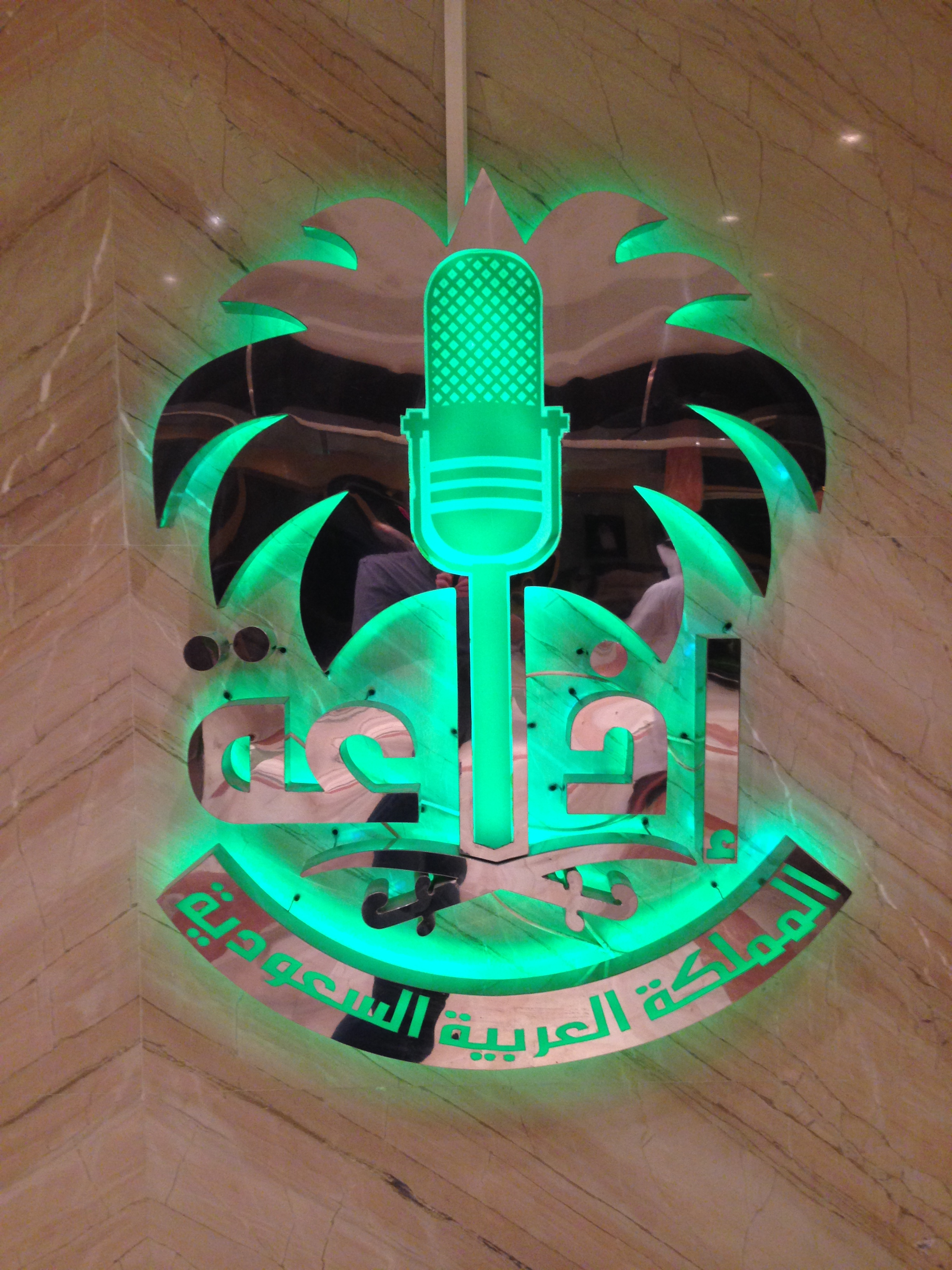 Sign at the Saudi Arabian Broadcasting offices at the Ministry of Culture and Media in Riyadh, Saudi Arabia